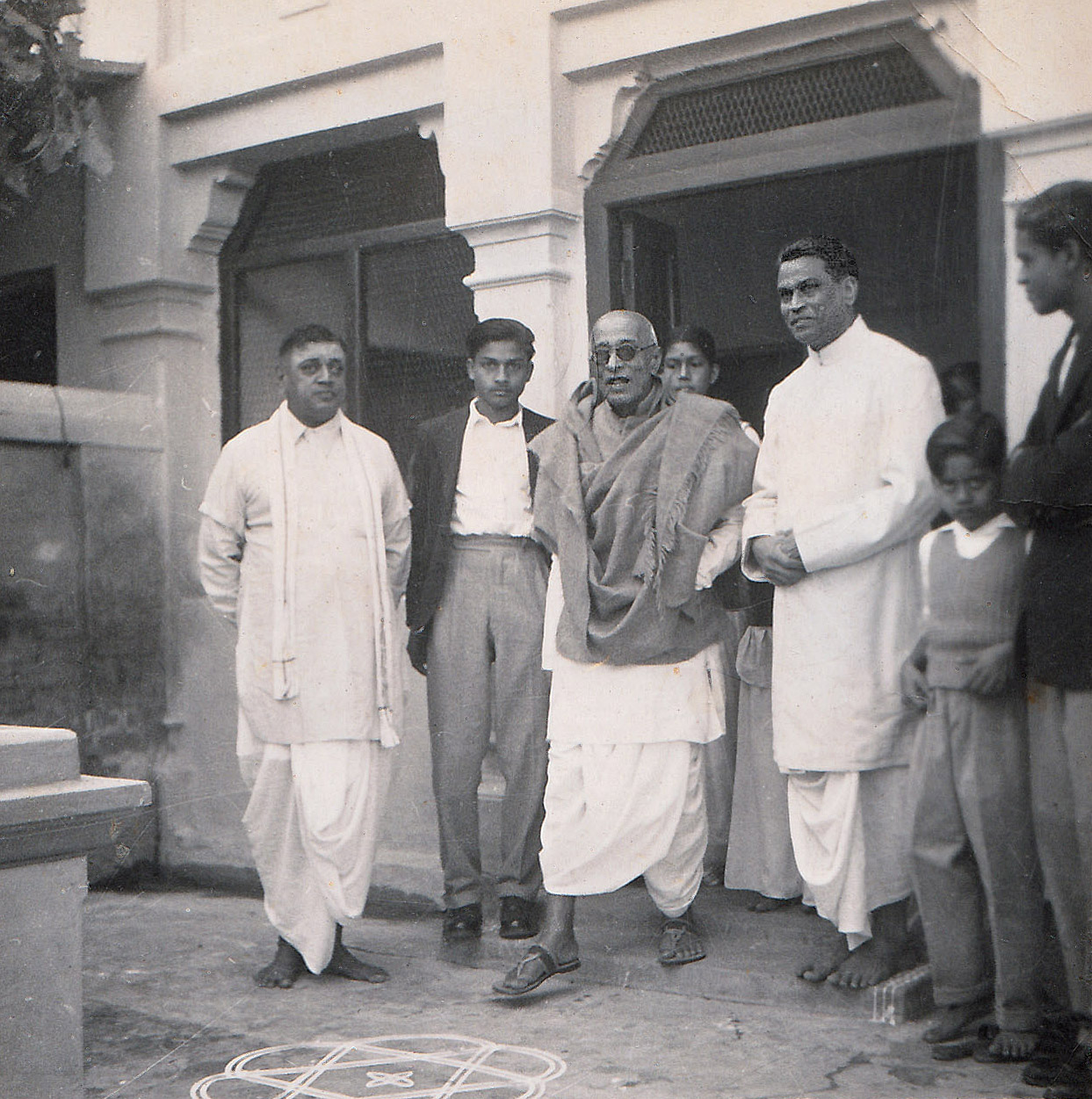 Governor-General of India C. Rajagopalachari (center, with glasses) visiting V. A. Sundaram (center right) in his house 'Krishnakutir' in 1948. Present are Sundaram's children and relatives.